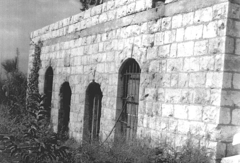 school of the Bedouin tribe